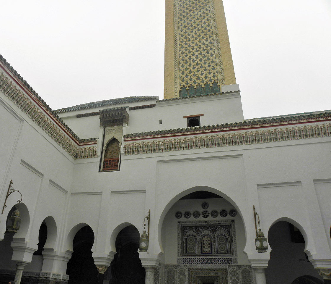 View of the base of the minaret and the Dar al-Muwaqqit of the Zawiya of Moulay Idris II